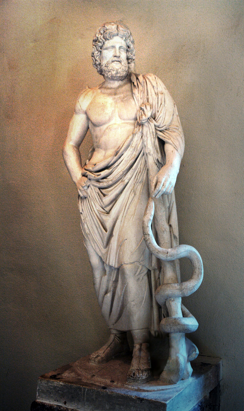 Statue of Asclepius, exhibited in the Museum of Epidaurus Theatre.